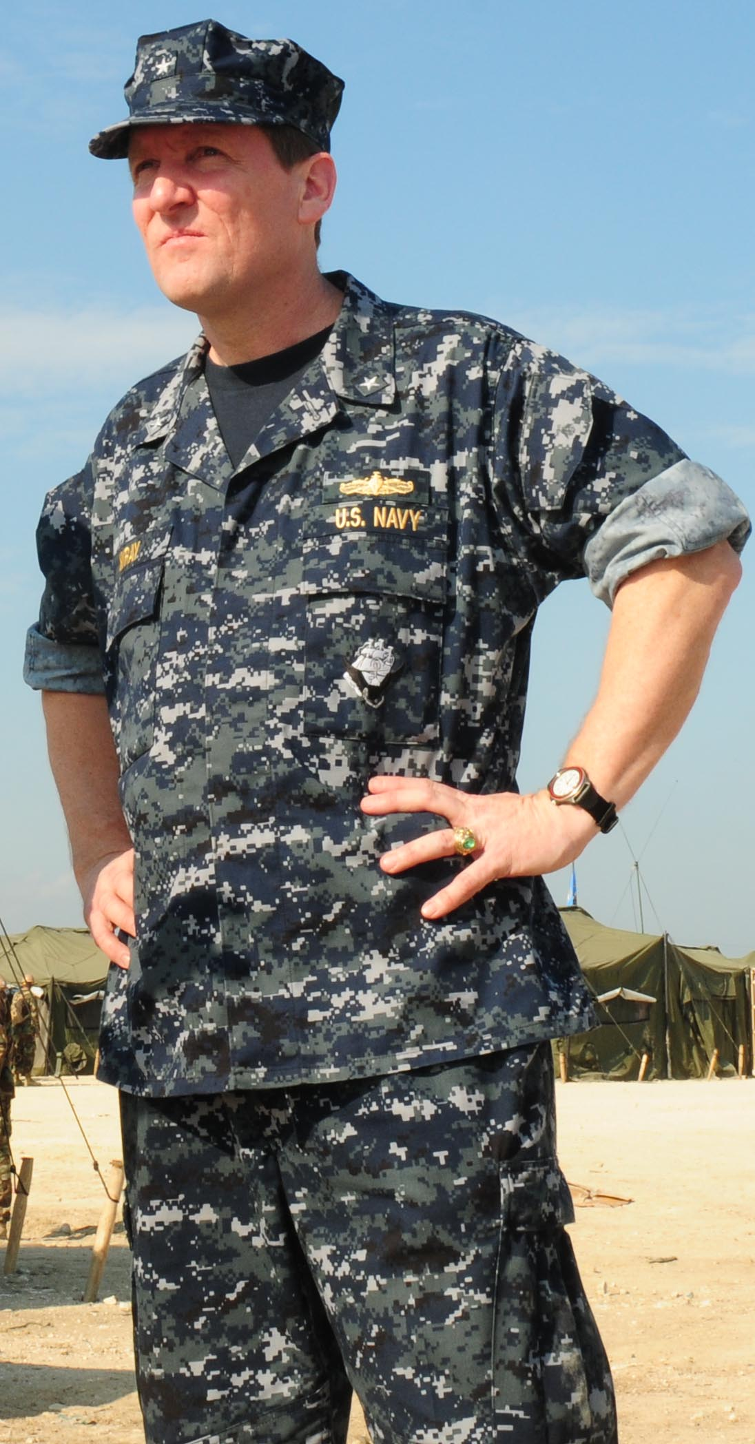 Cropped from original. Following is original description: U.S. Navy Rear Adm. Robert Wray, deputy commander of Military Sealift Command, center, tours the White Beach logistical compound at Varreoux Beach in Port-au-Prince, Haiti, with Capt. Paul Webb, commanding officer of Amphibious Construction Battalion (ACB) 2, left, and Capt. Clay Saunders, commodore of Joint Logistics Over the Shore (JLOTS) Feb. 23, 2010. ACB-2 is conducting construction, humanitarian and disaster relief operations as part of Operation Unified Response after a 7.0-magnitude earthquake caused severe damage in and around Port-au-Prince. (U.S. Navy photo by Mass Communication Specialist 2nd Class Kim Williams/Released)